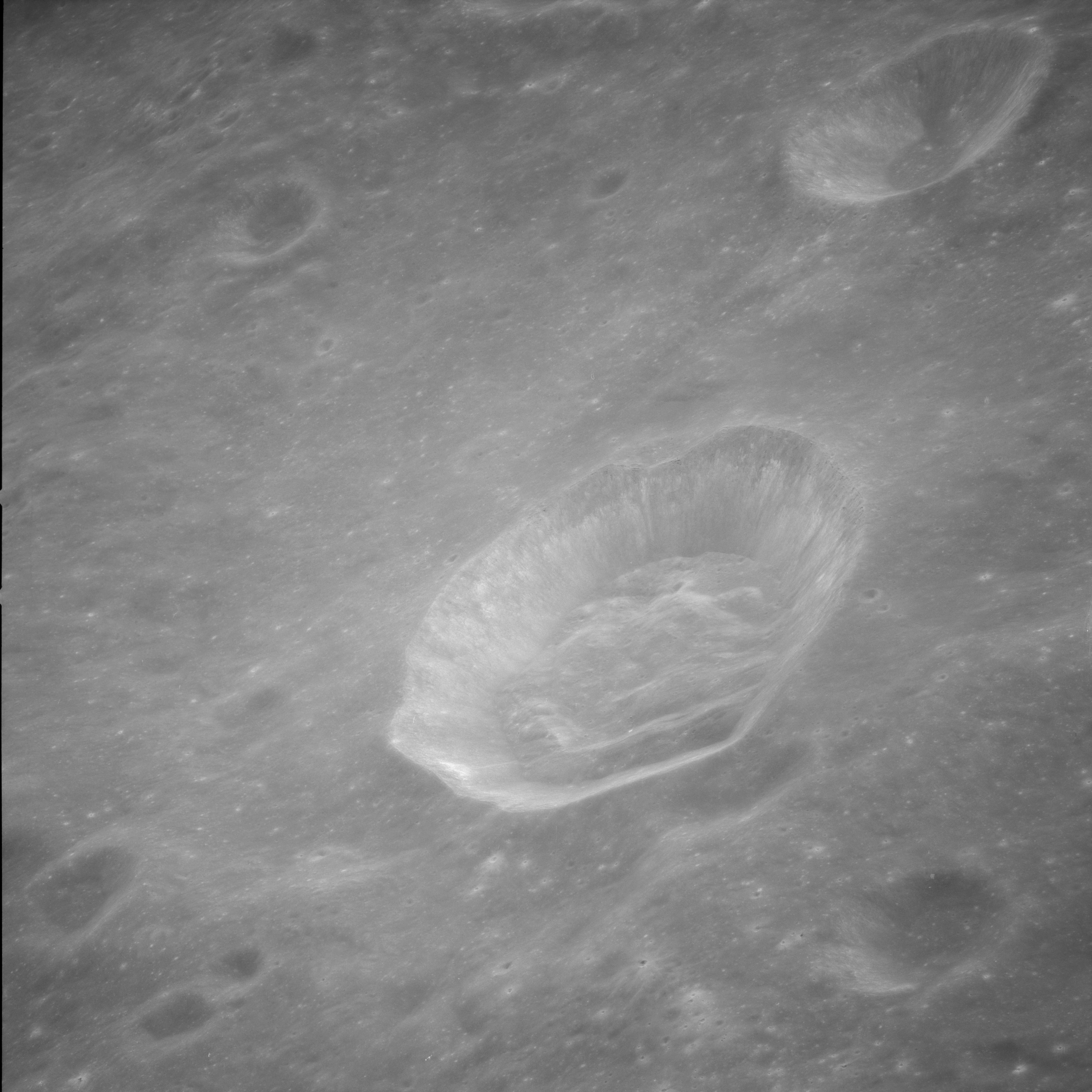 Oblique view of the interior of Banachiewicz (crater) crater, on the moon. Banachiewicz B is the larger crater below center, and Knox-Shaw is in upper right.